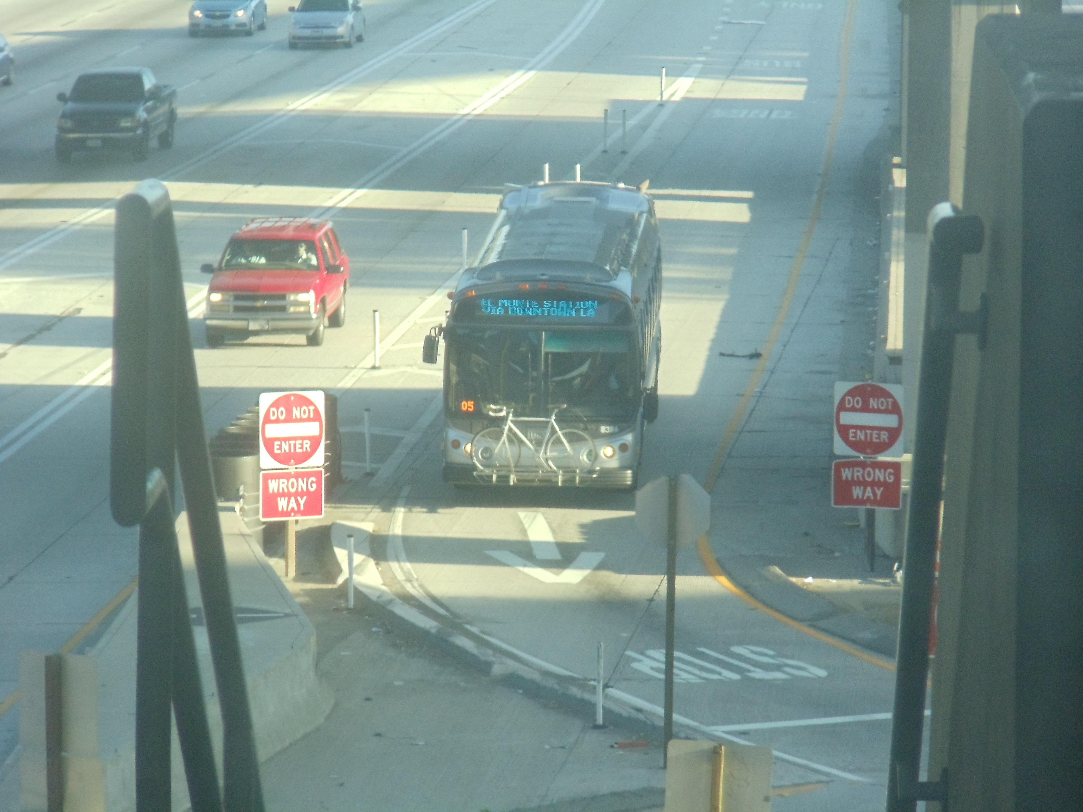 Northbound Metro Silver Line bus to Downtown LA & El Monte arrives at Harbor Freeway Green & Silver Lines Station.